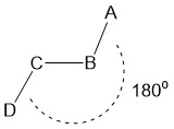 Representation of co-planar A-B and C-D bonds with a dihedral angle of 180 degrees